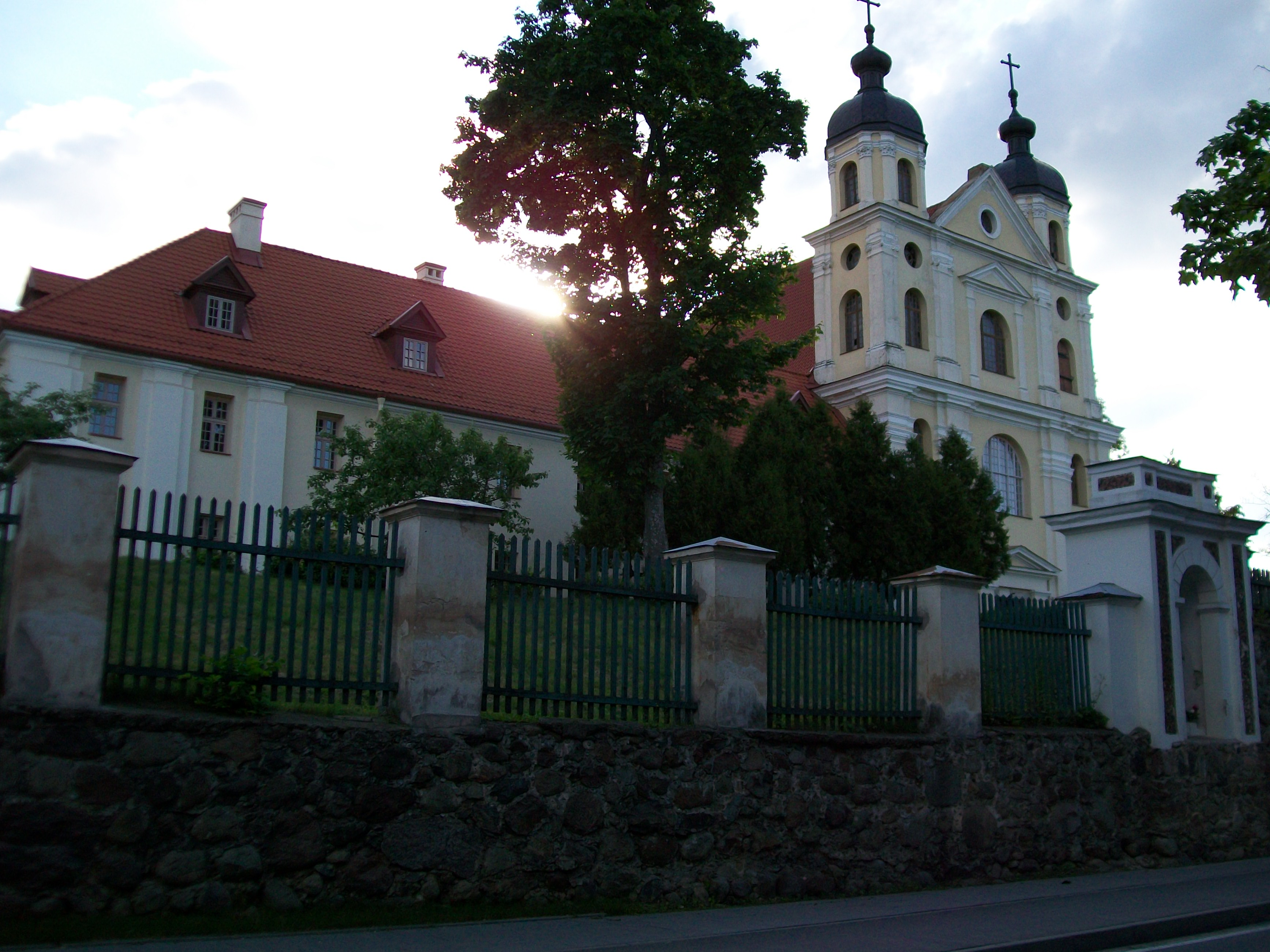 Church and monastery in Trinapolis, Vilnius